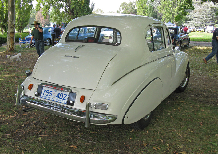 Sunbeam Talbot 80 Canberra Australia